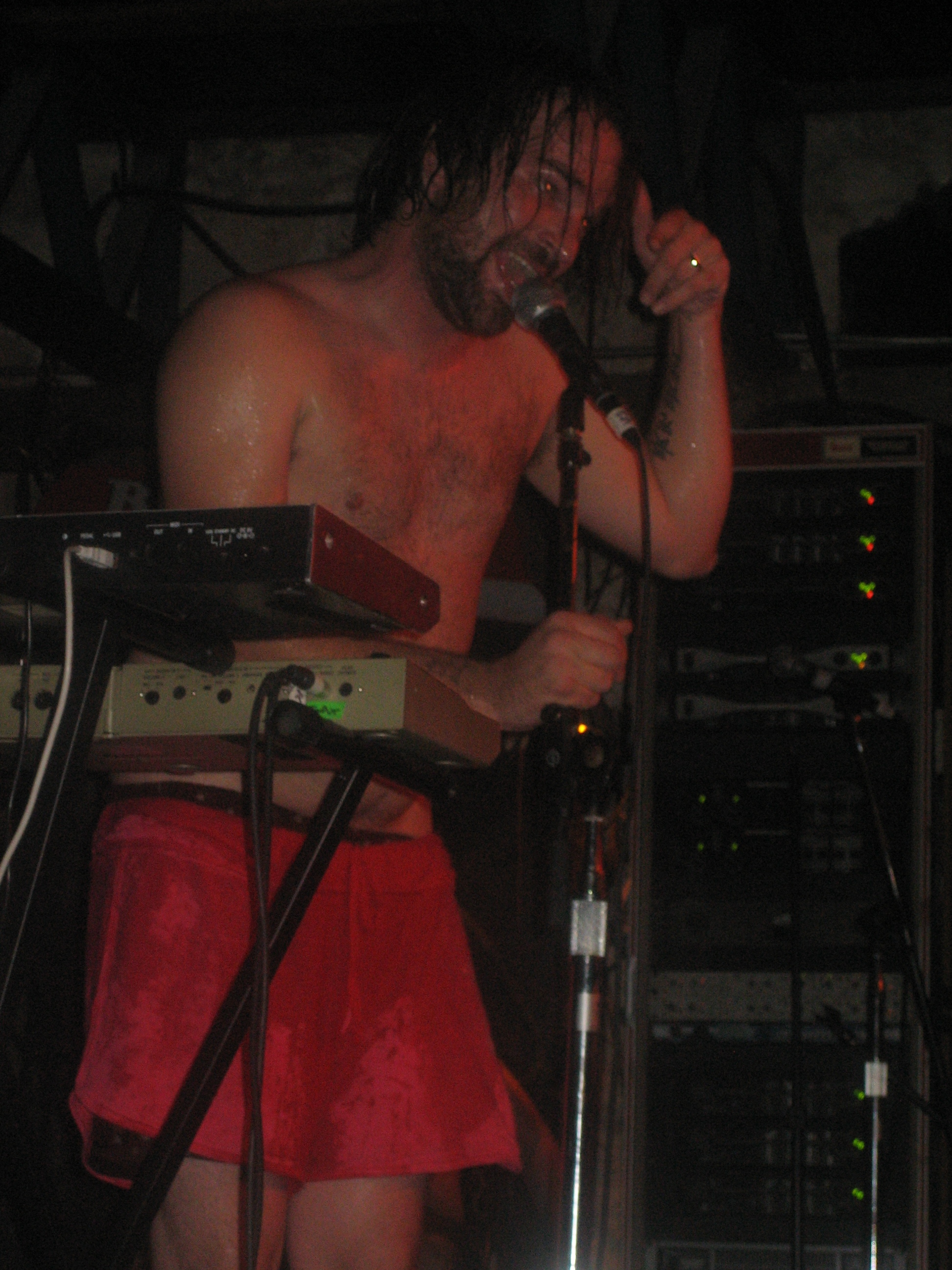 James Dewees in Austin, TX on 8/23/08